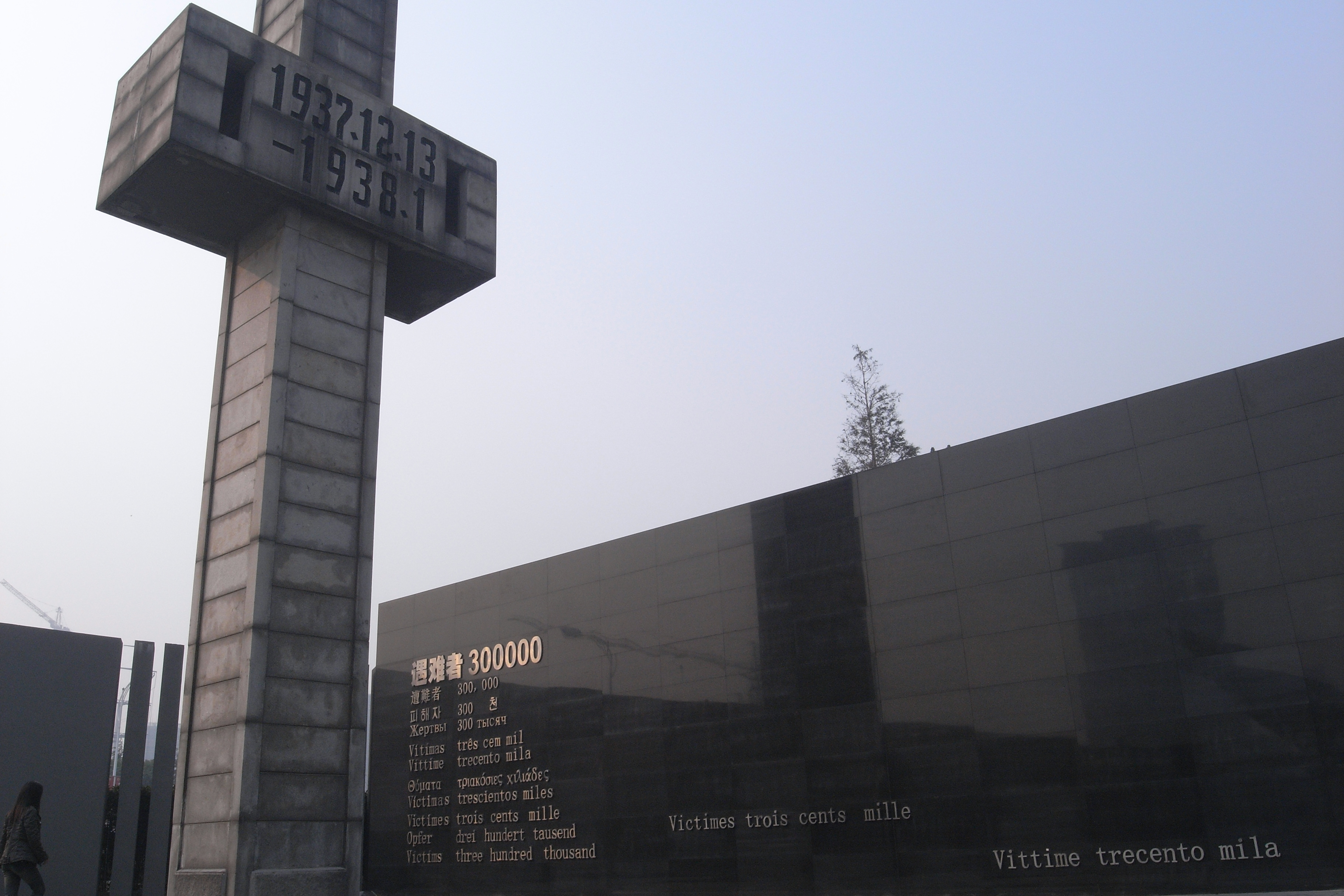 Exif_JPEG_PICTURE the memorial hall of the victims in nanjing massacre by japanese invaders nanjing jiangsu, china